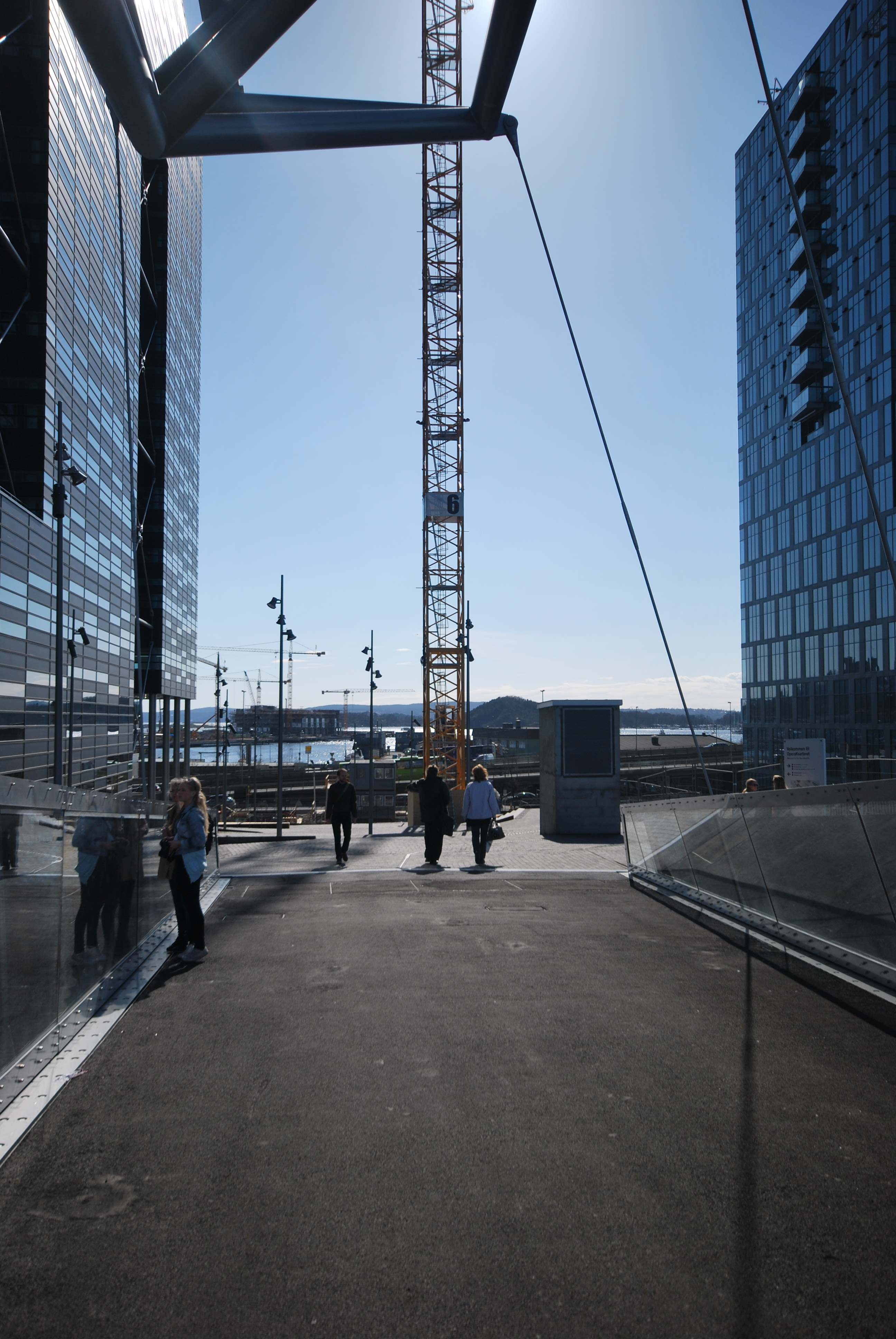 New street Stasjonsallmenningen, Bjørvika, Oslo, seen from pedestrian bridge towards the Oslo fjord